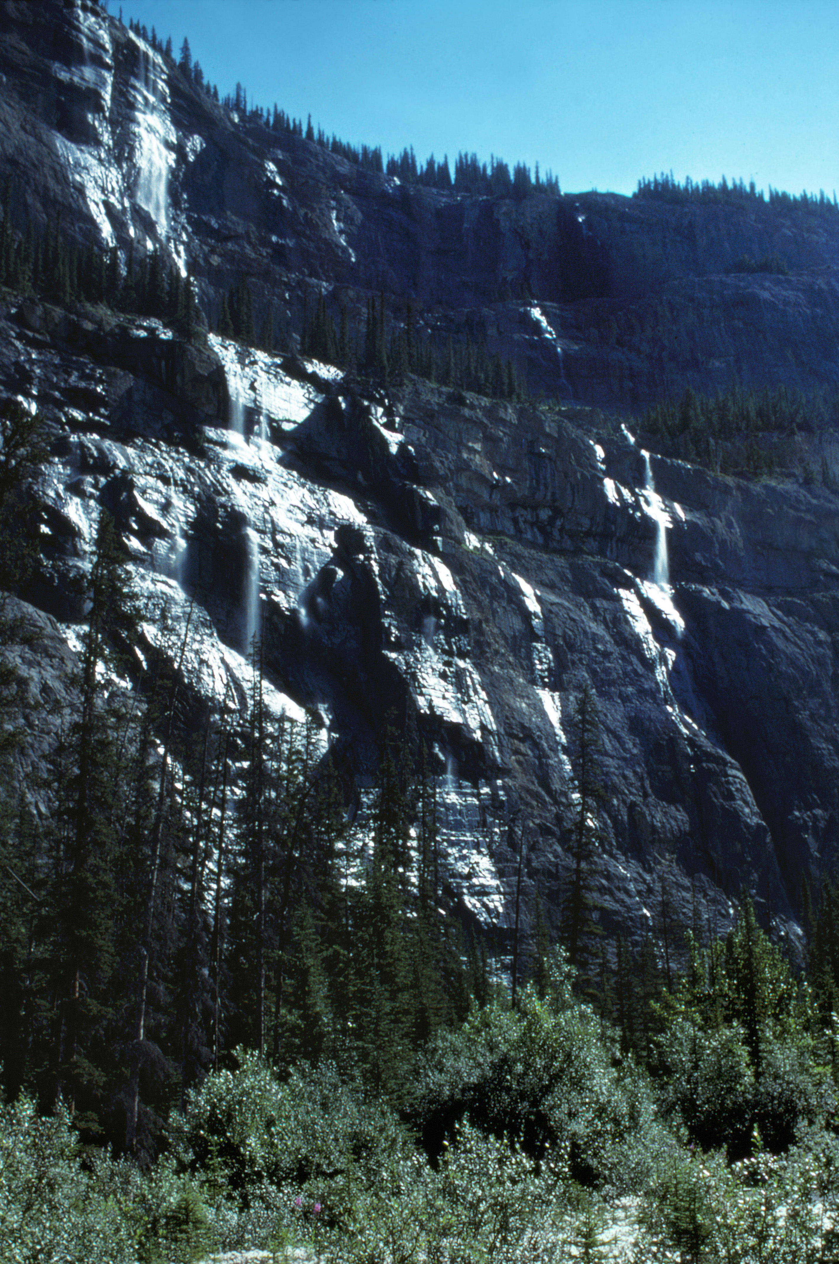 The Weeping Wall, Banff National Park, Alberta, Canada (Digitized from portion of a Kodachrome taken in 1981 with Nikon F2S Photomic.)